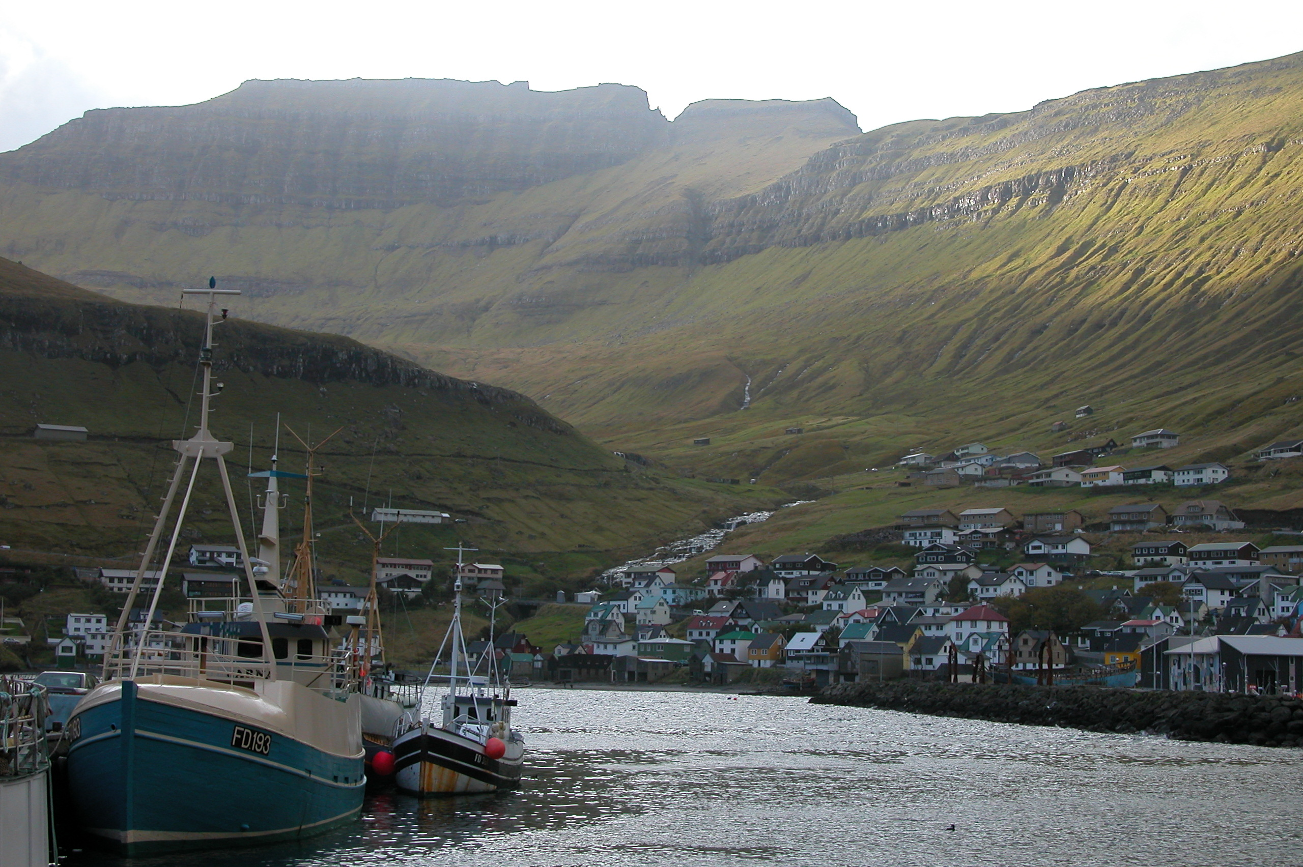 Fuglafjørður, Faroe Islands: Part of the harbour.